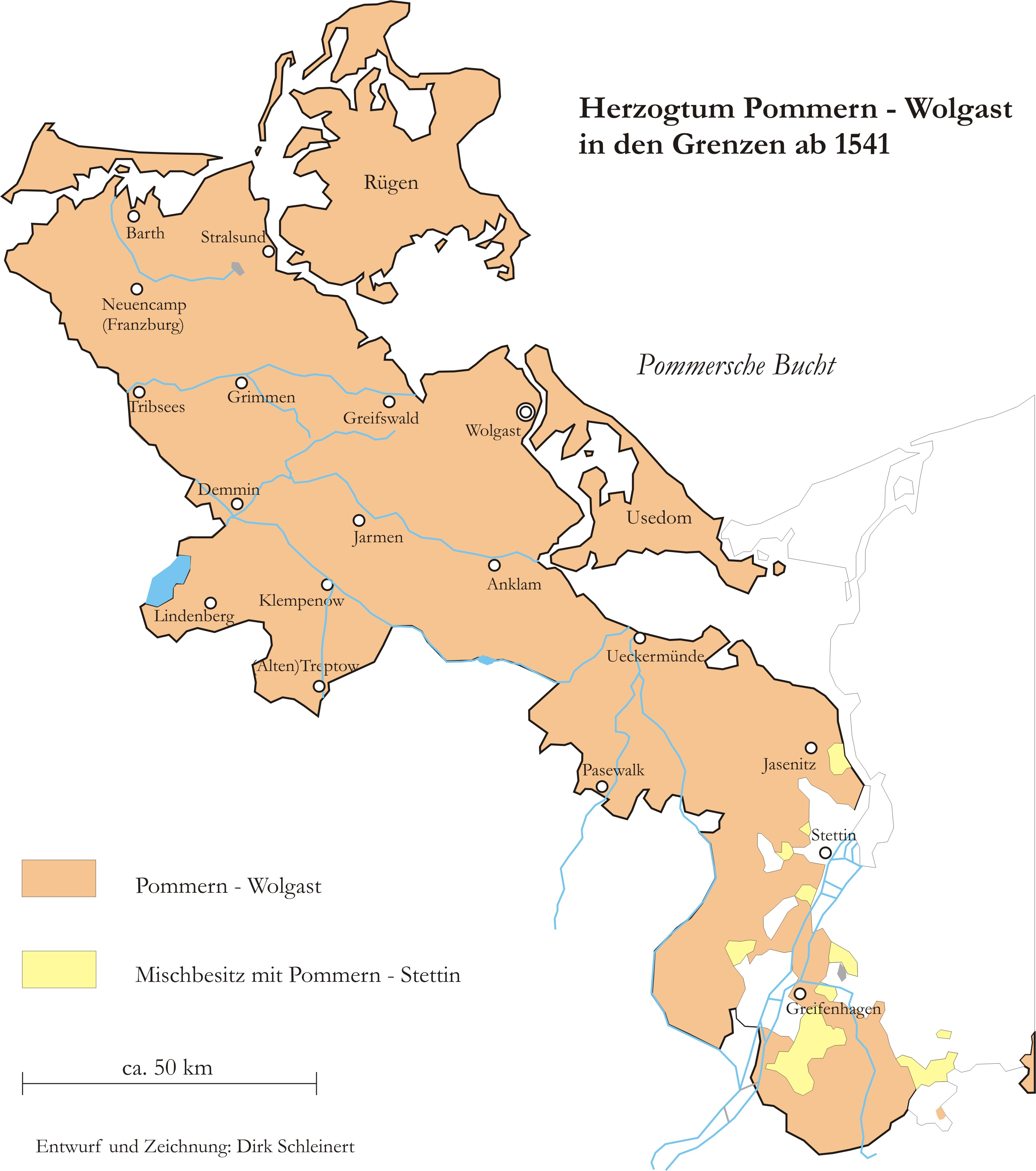 Map of Duchy of Pomerania-Wolgast under the 16th century Karte des Teilherzogtums Pommern-Wolgast im 16. Jahrhundert